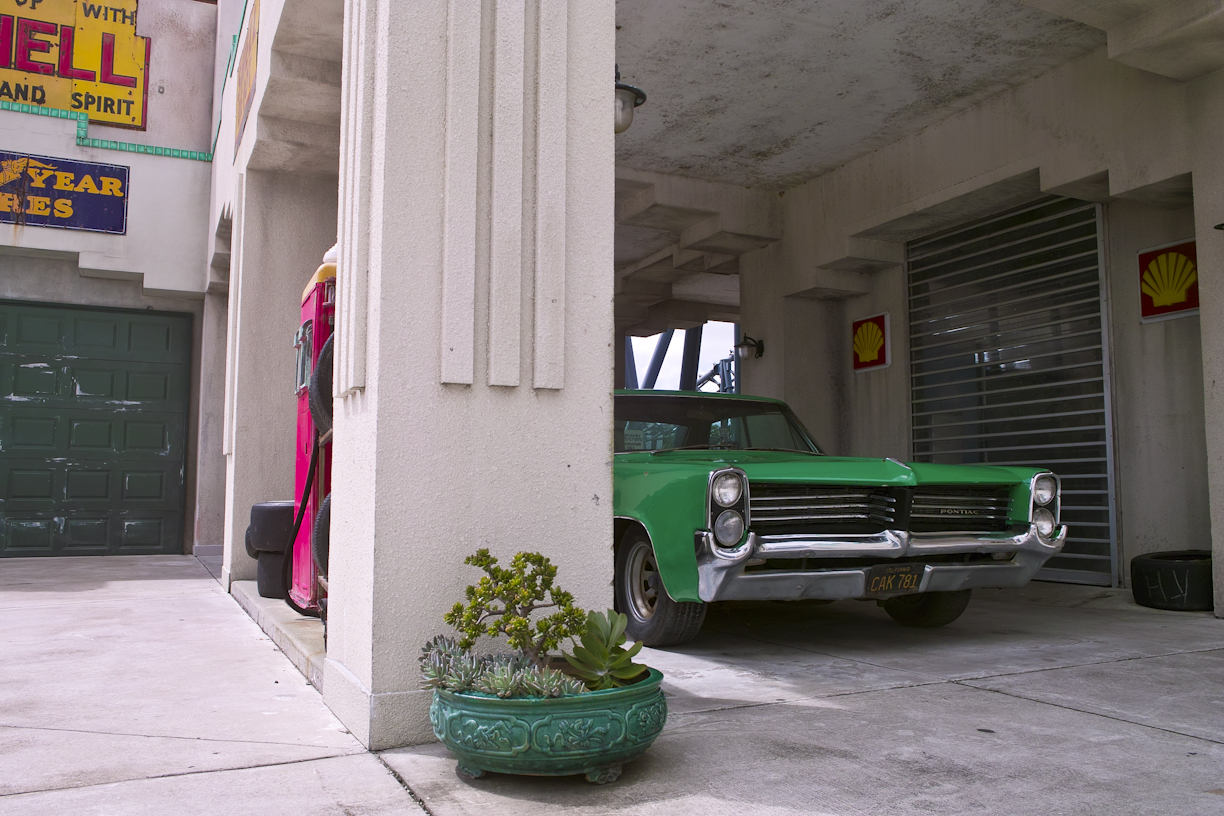 The surrounding area of Lethal Weapon: The Ride at Warner Bros. Movie World.